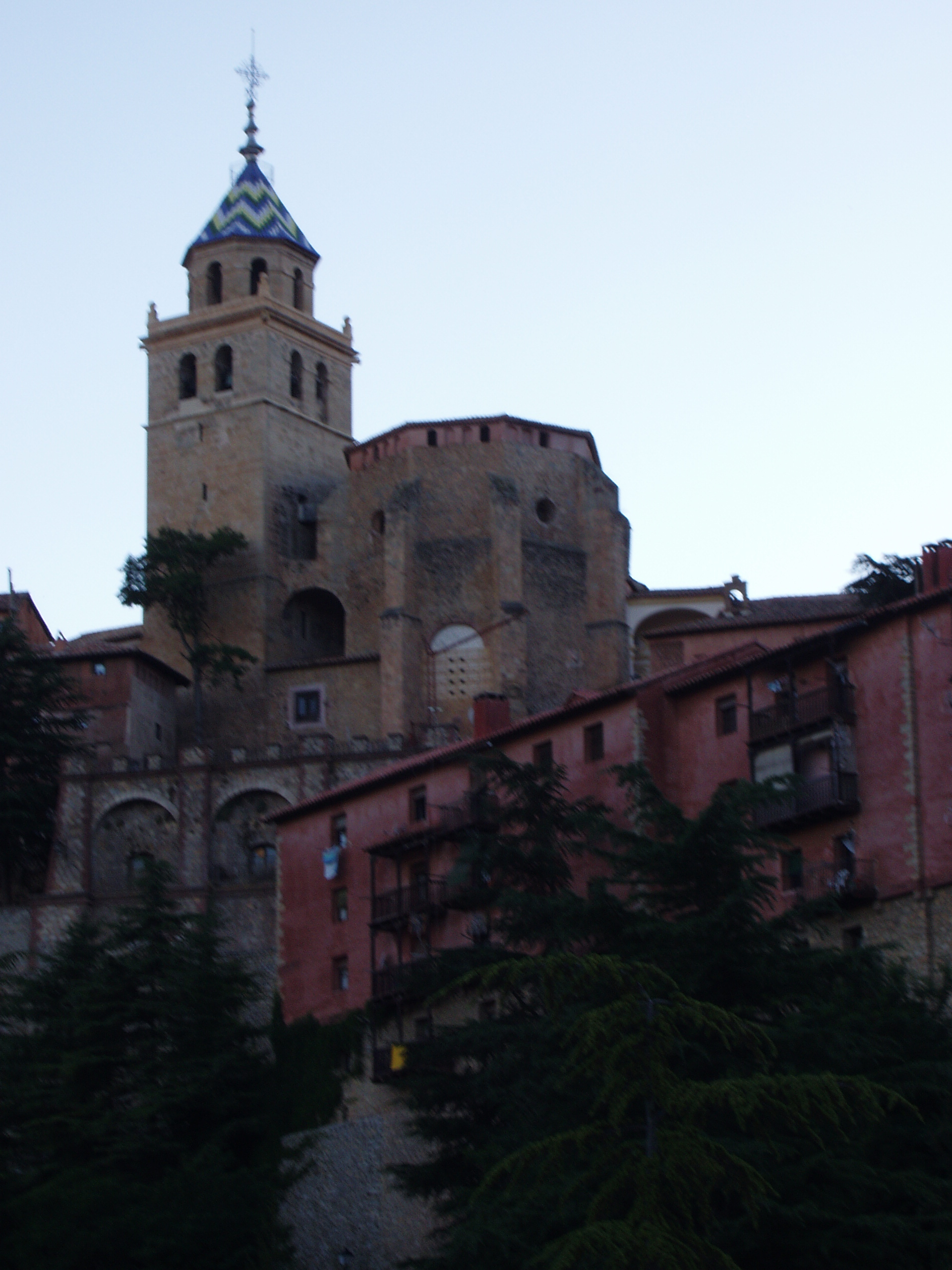 Cathedral of Albarracin, Spain